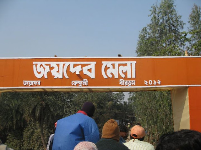 Entrance of Joydev's Fair